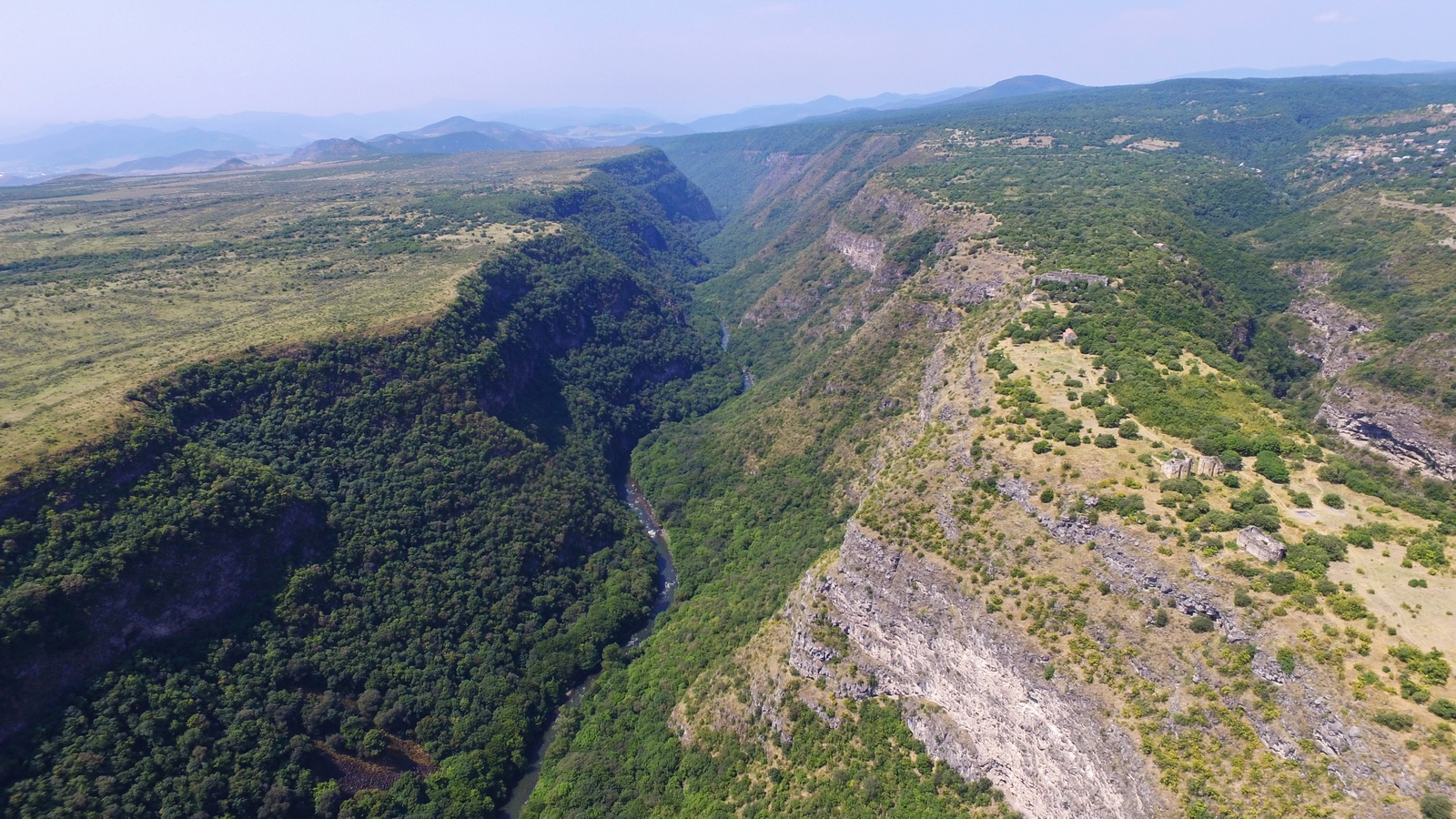 Algeti National Park is a protected area in Georgia, in the southeast of the country. It lies in the region of Kvemo Kartli, within the Municipality of Tetritsqaro, some 60 km southwest of the nation’s capital, Tbilisi.